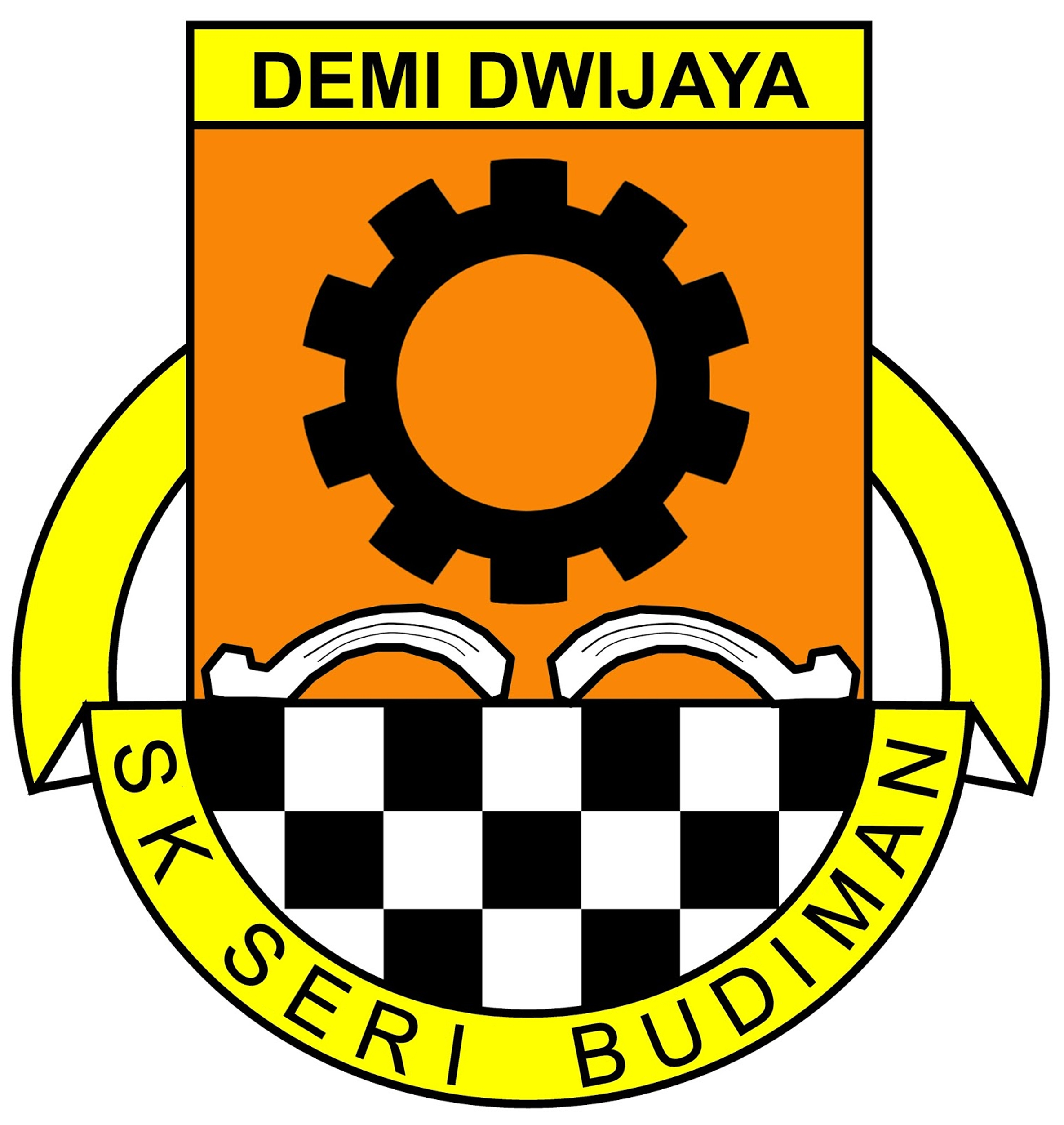 SK SERI BUDIMAN